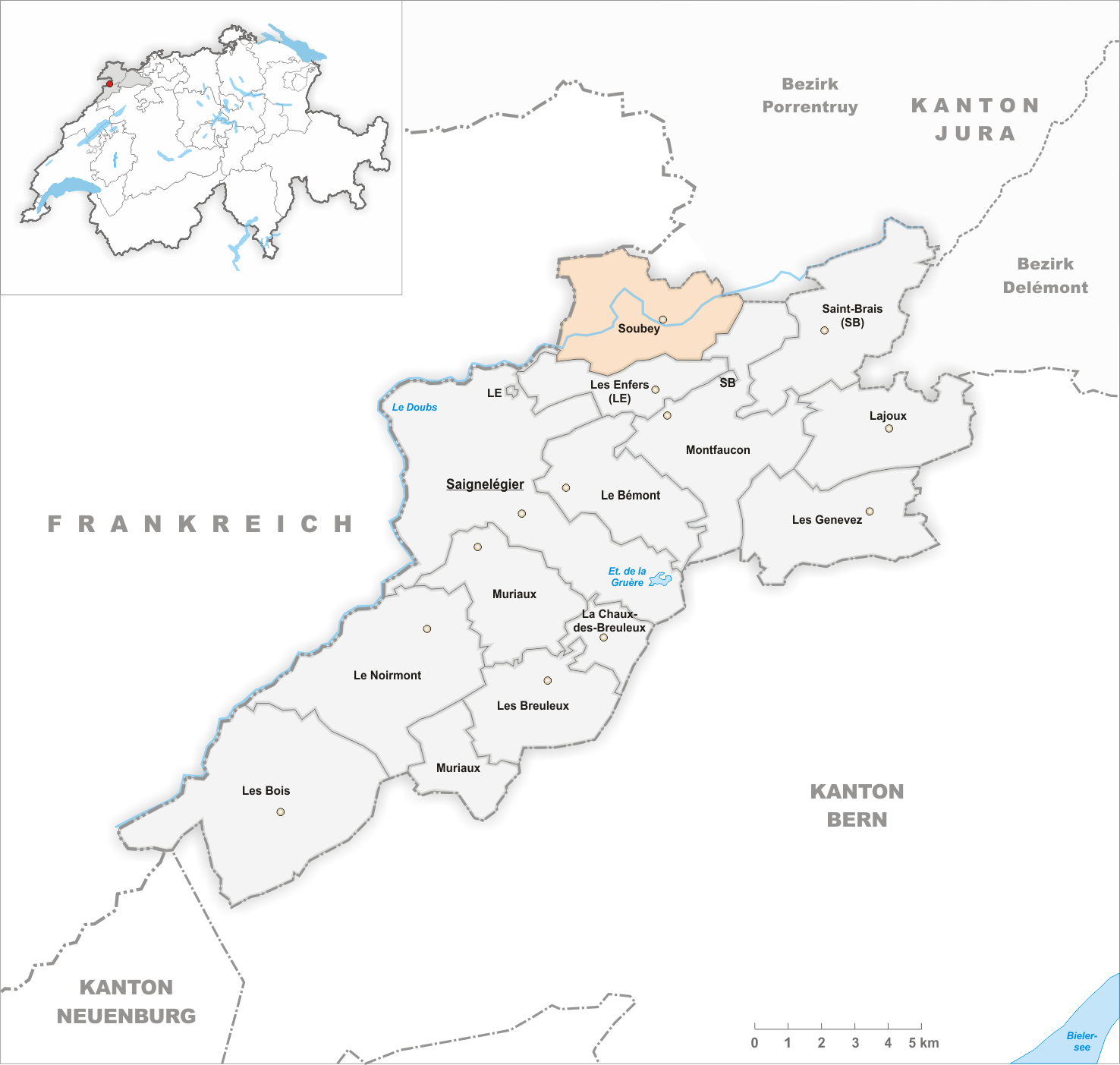 Municipality Soubey